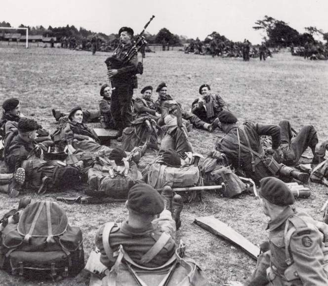 Bill Millin